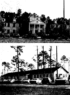 Photographs of Central Intelligence Agency station JMWAVE at the South Campus of the University of Miami, Florida, circa. 1961. Released under CIA Historical Review Program in 1997